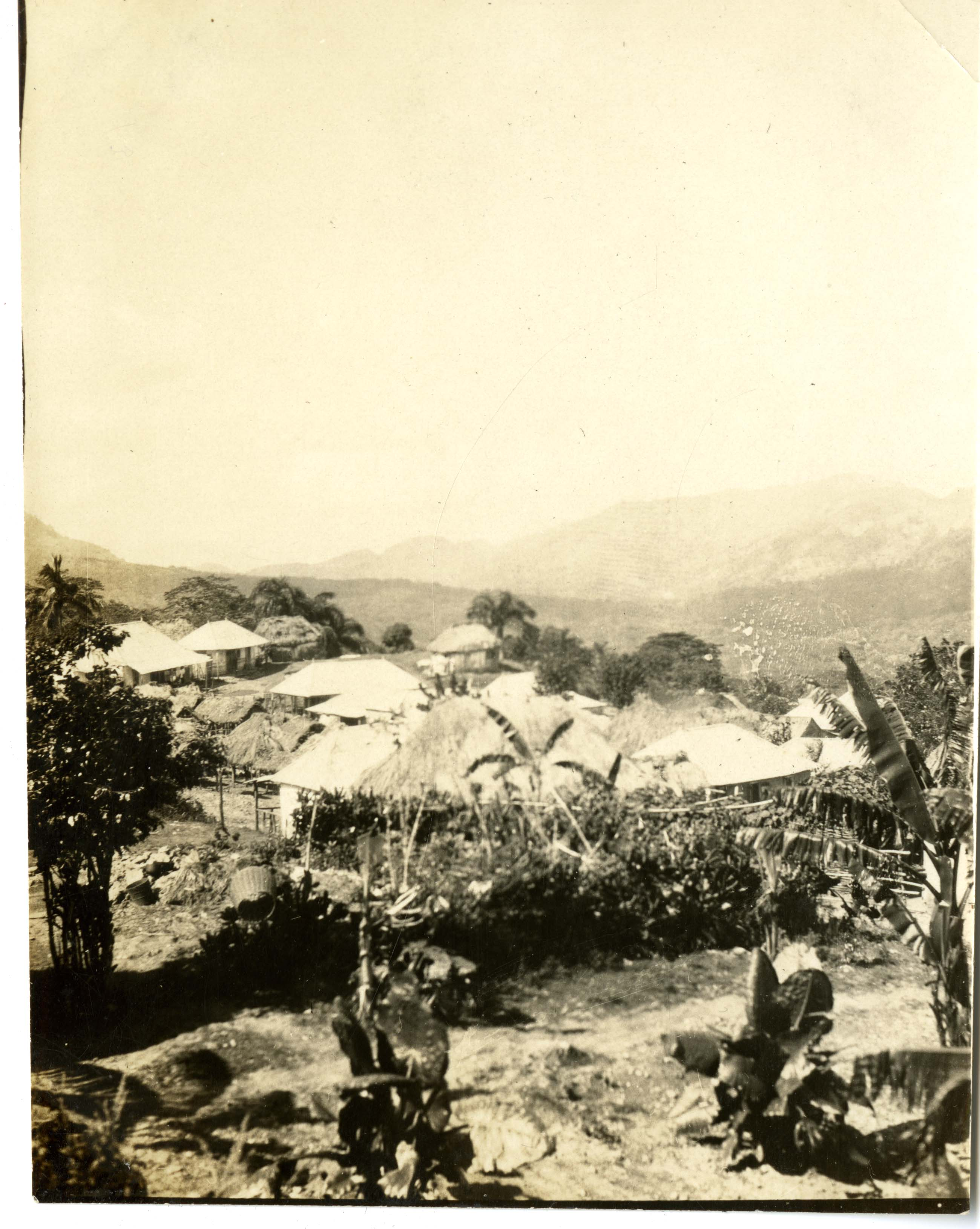 Creator: Watson Perrygo Local number: SIA2008-2567 Summary: The photograph documents Watson Perrygo's field work with Arthur J. Poole in Haiti. Dates: 1928-1929 Collection: SIA RU 7306, Watson M. Perrygo Papers, circa 1880s-1979. Box 2, Folder 11. Repository: Smithsonian Institution Archives View more collections from the Smithsonian Institution.